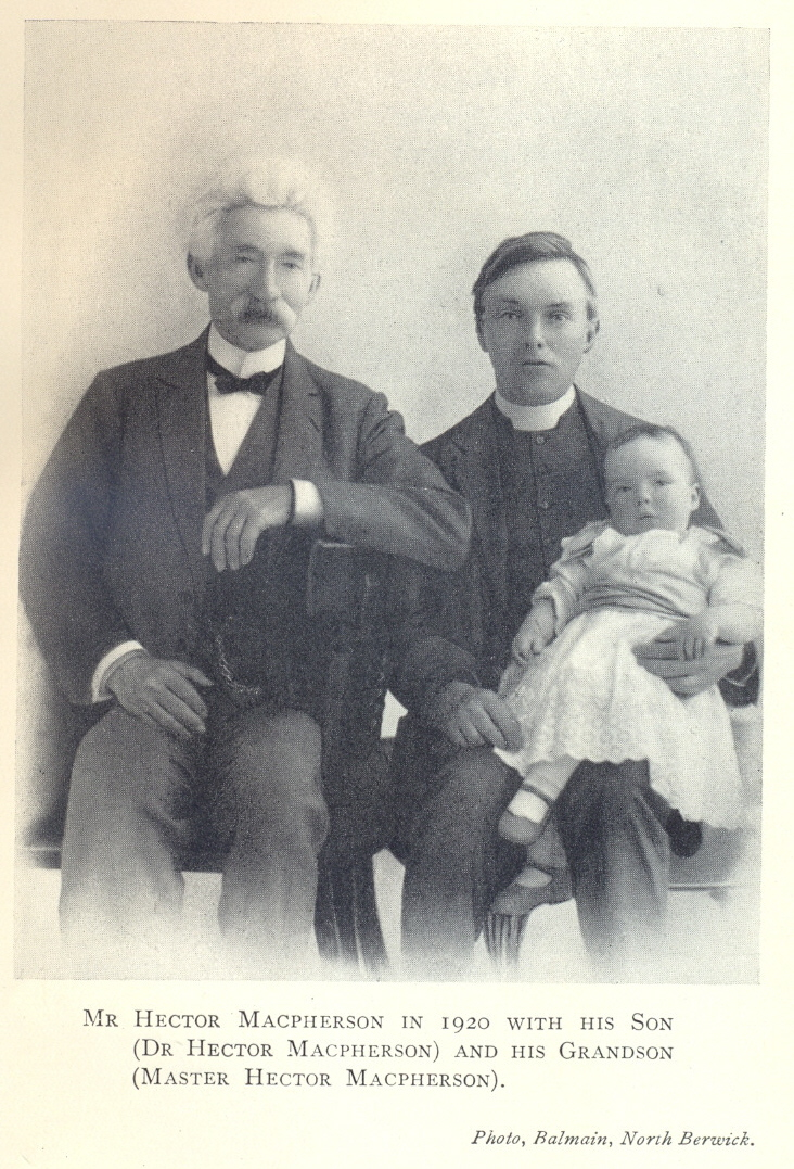 This photograph is scanned from a biography published in 1925 and is long out of copyright. It is to be used in a Wikipedia biography of Hector Carsewell Macpherson. The caption states that the photograph was taken in 1920.